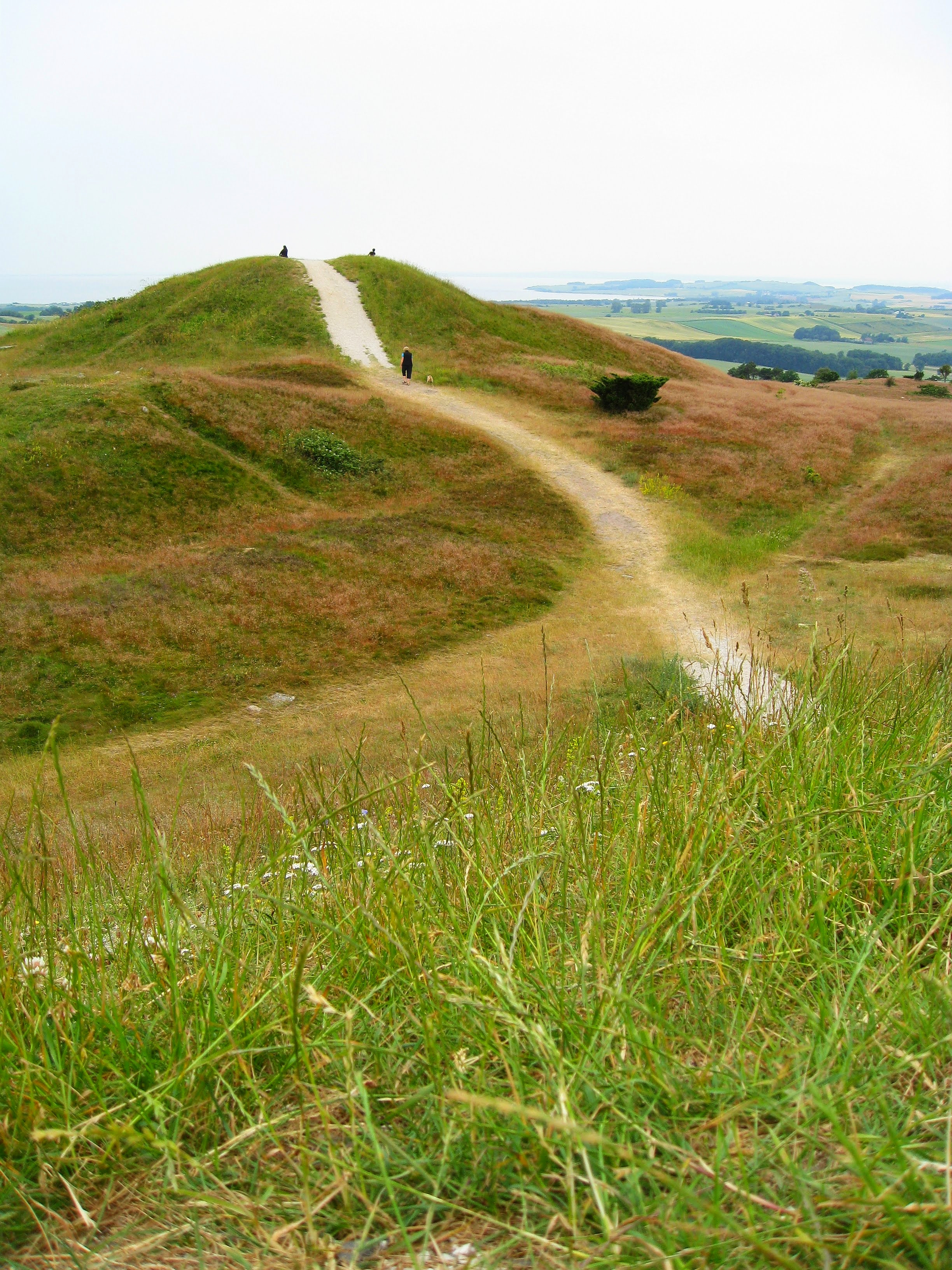 Trehøje, Mols Bjerge